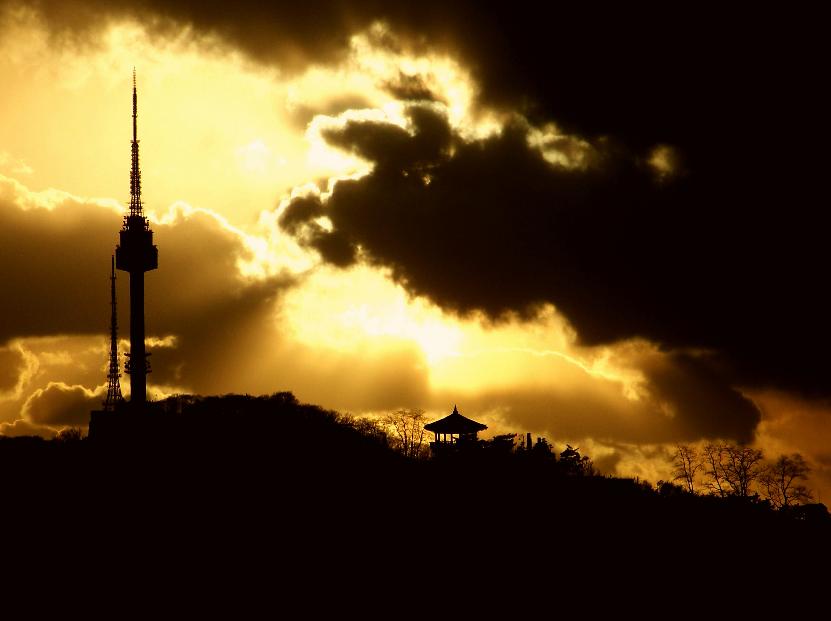 N Seoul Tower